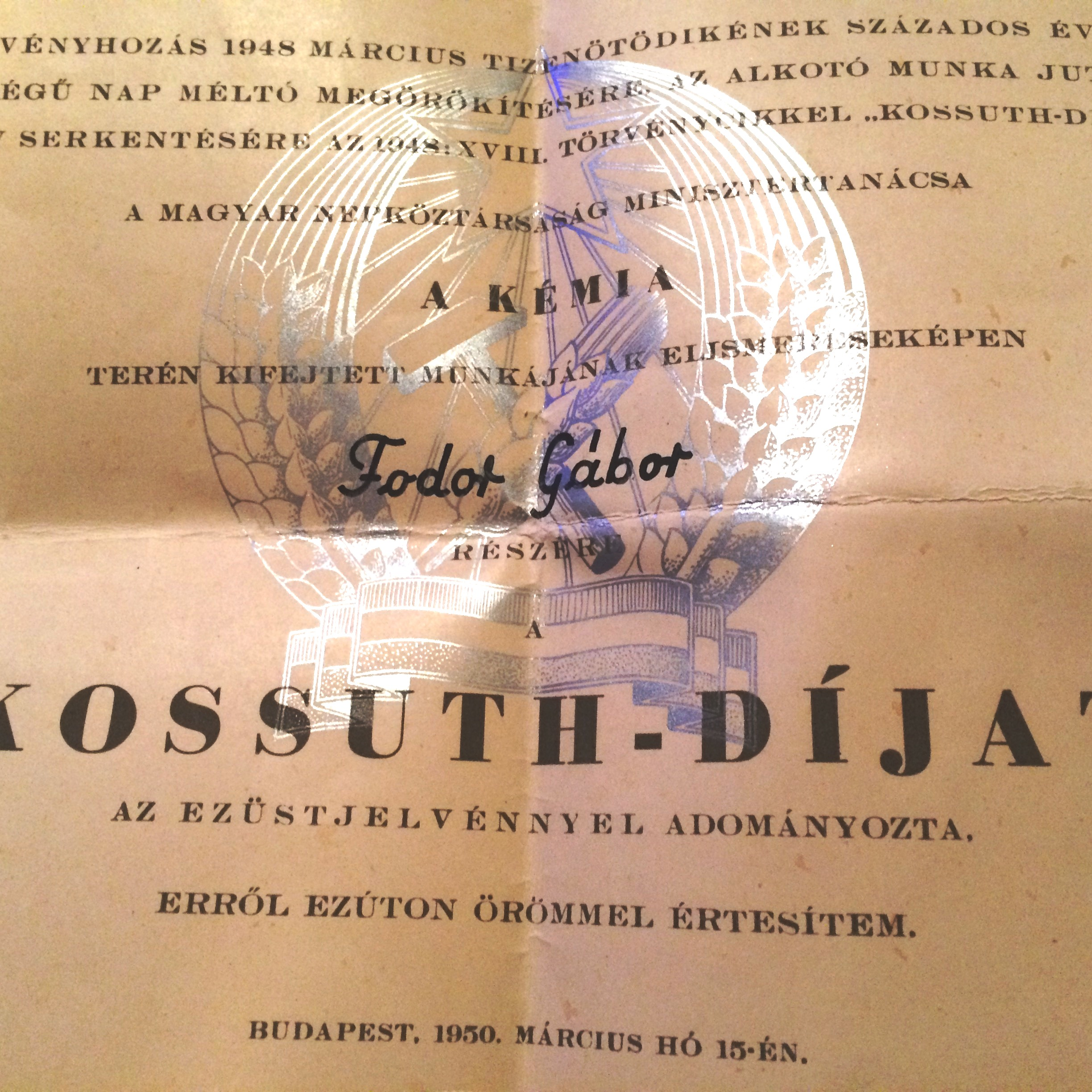 Chemist Gabor Fodor, 1950